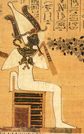 Osiris. Atef crown